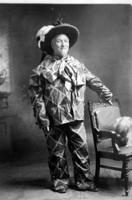 James Edgar, credited as being the first person to come up with the concept of dressing up as Santa Claus for Christmas, in a clown outfit.